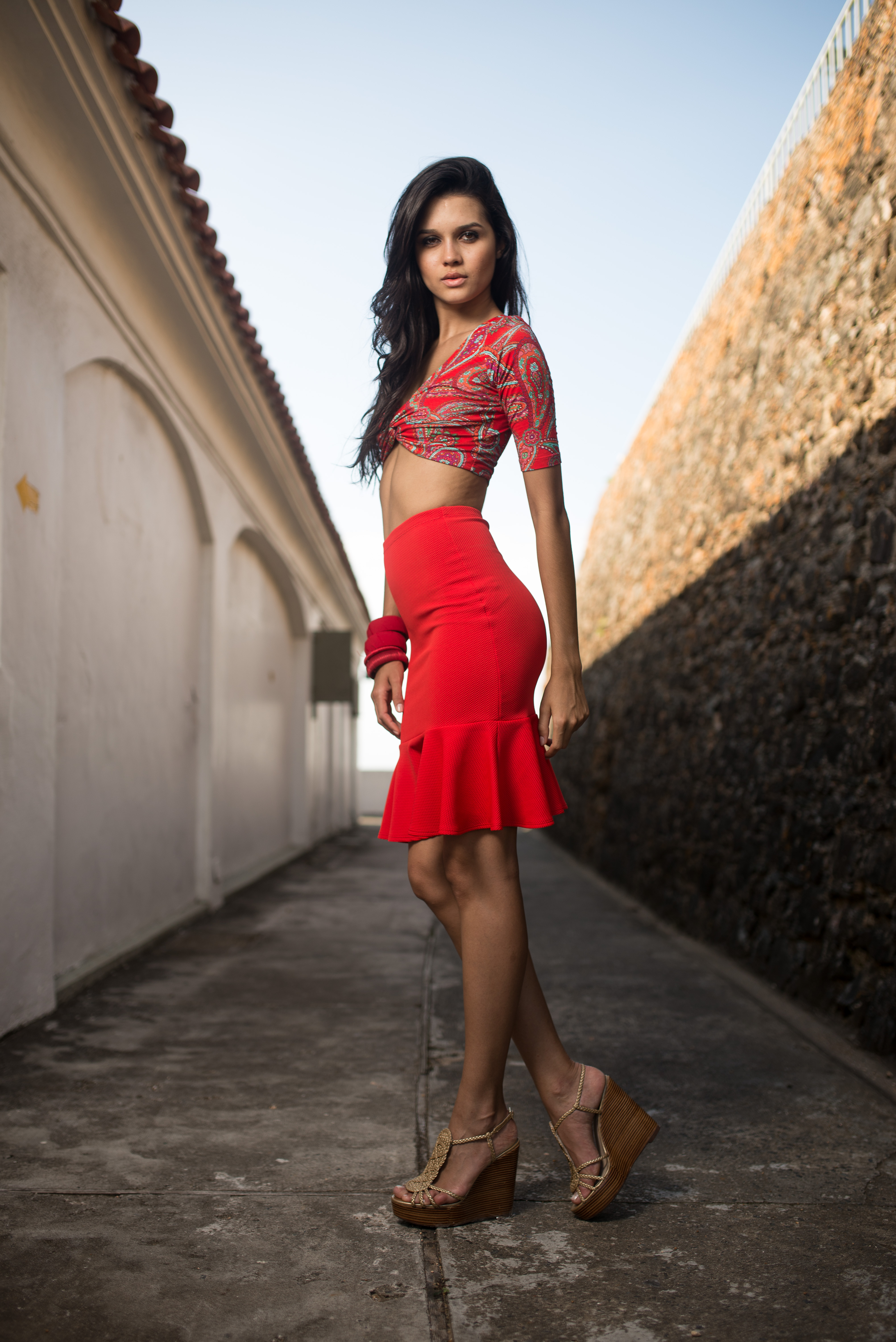 Anne Lima, Miss Bahia, wearing Colcci brand